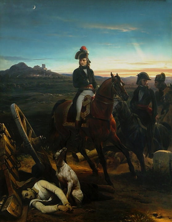 General Bonaparte near Bassano del Grappa (Italian campaign 1796)